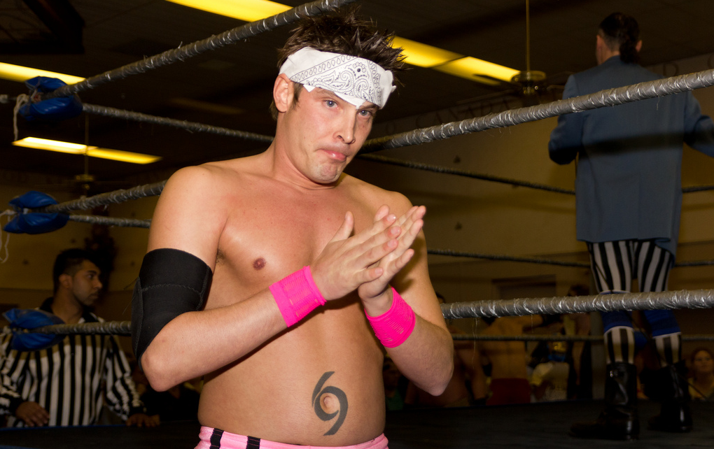 Image of Mike Hart wrestling